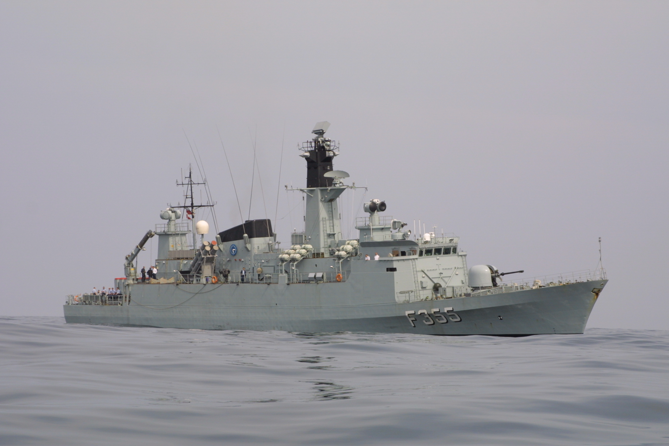 HDMS Olfert Fischer on its way to the Persian Gulf for operations, 17 March 2003